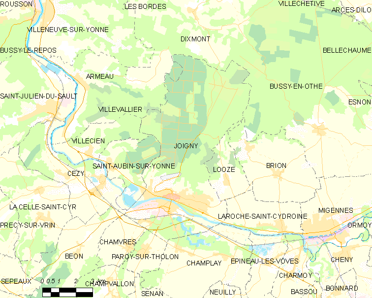 Map of French municipality Joigny